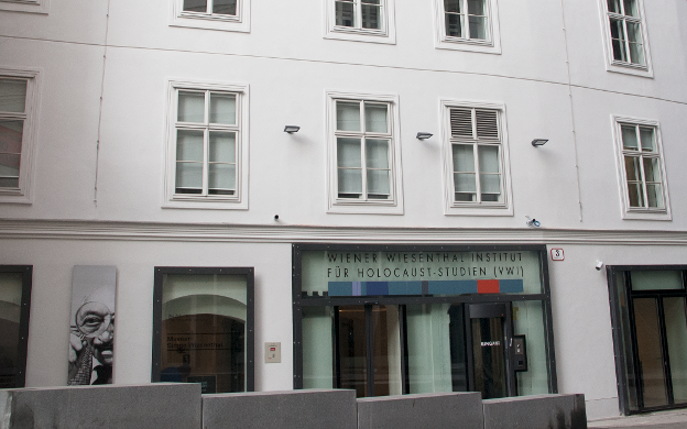 Entrance to Vienna Wiesenthal Institute for Holocaust Studies in Vienna, Rabensteig 3